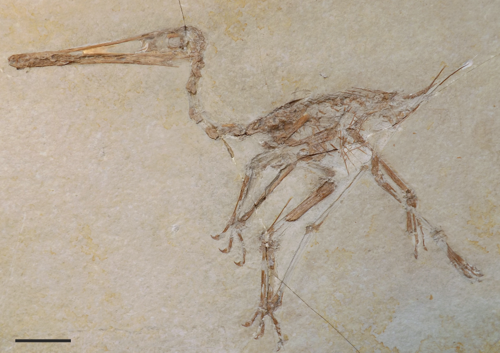 Type specimen of Pterodactylus scolopaciceps (BSP AS V 29 a). Scale bar = 20 mm.